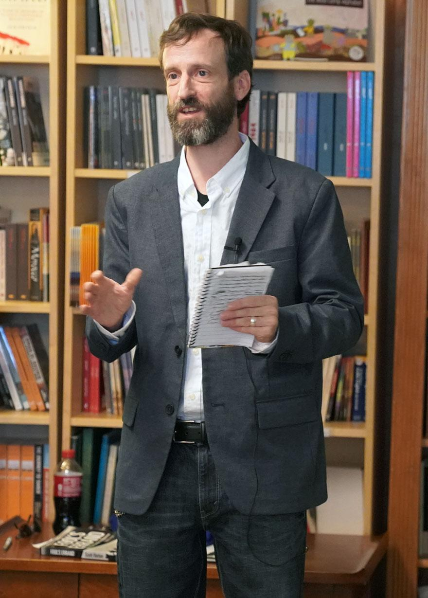 Photo of author Scott Horton